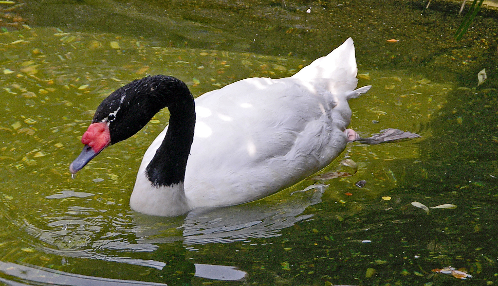 A photograph of a Black-necked Swanen (Cygnus melancoryphus en ) swimming. Picture taken at and identified by the Philadelphia Zoo.